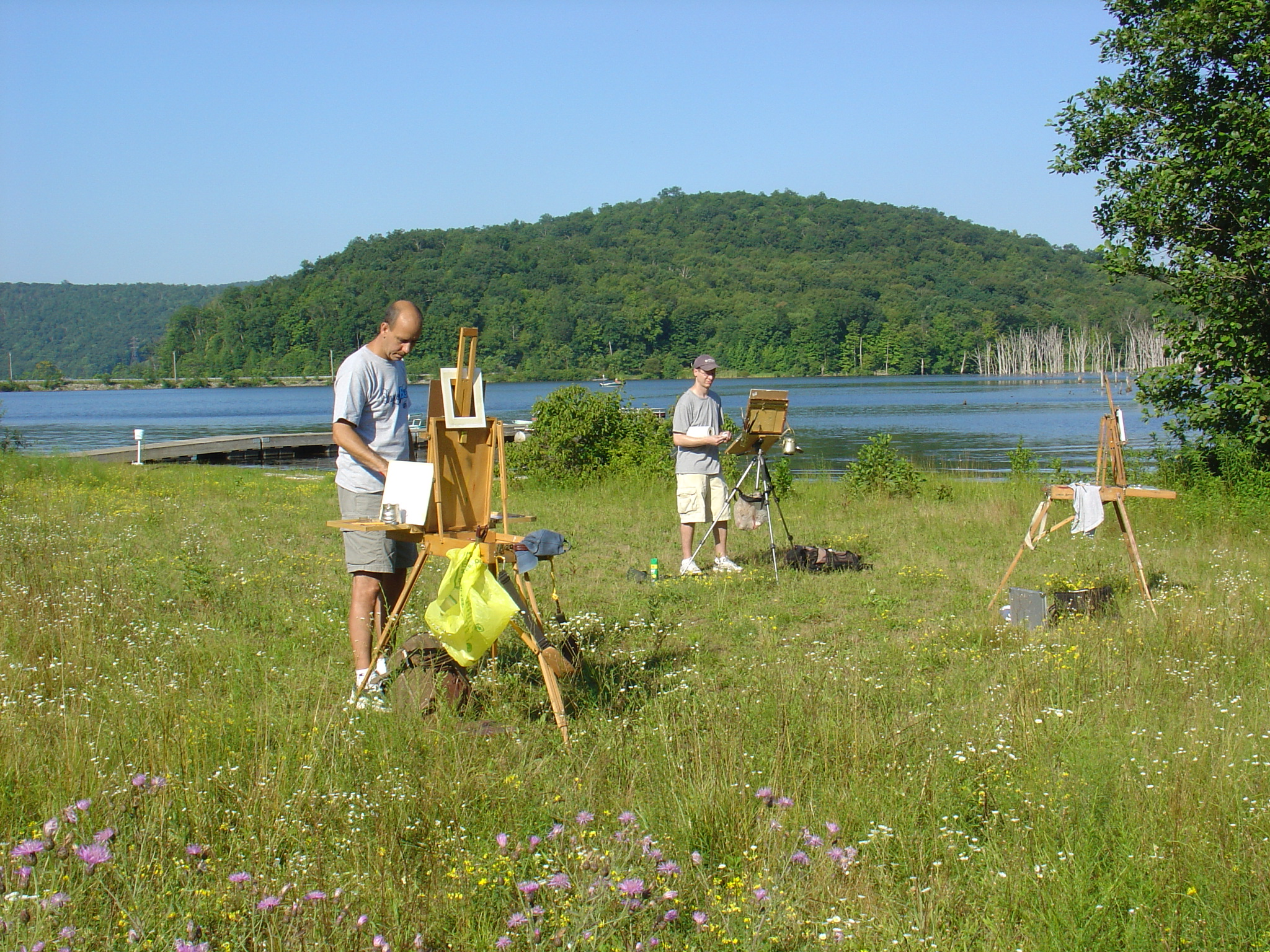 Plein Air Painters at Long Pond in Ringwood, NJ -photo courtesy of Diana Gibson